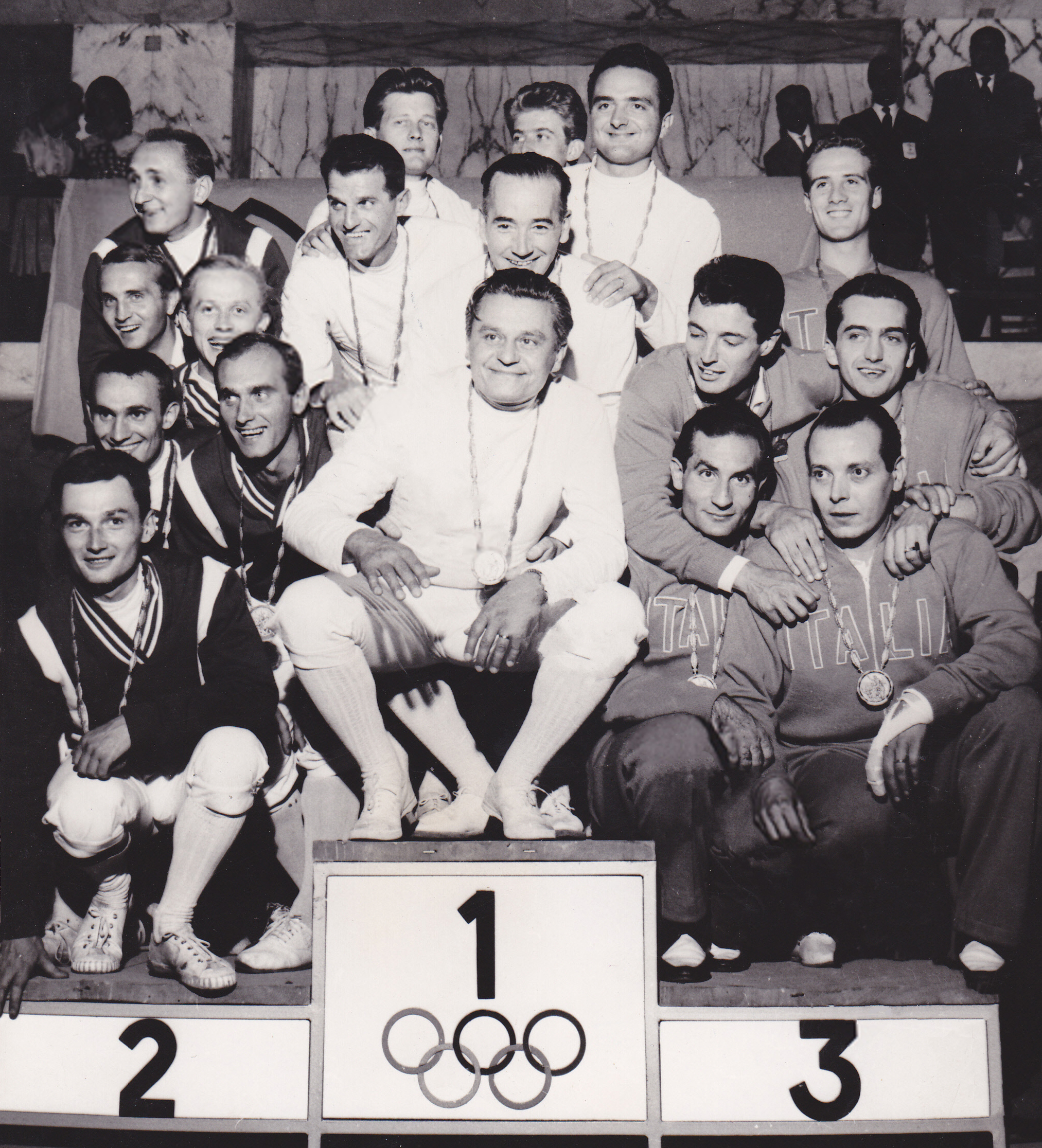 Team sabre podium 1960 Olympics men